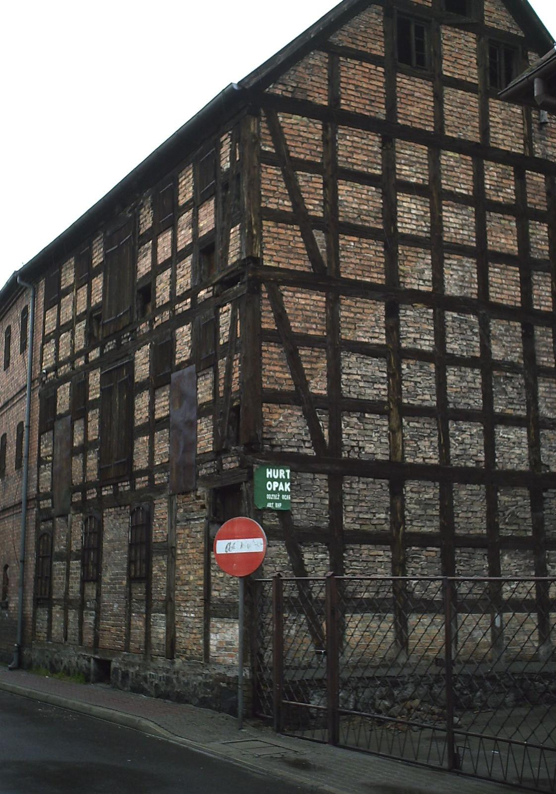 Old granary in Skwierzyna (lubuskie voivodship), Poland.